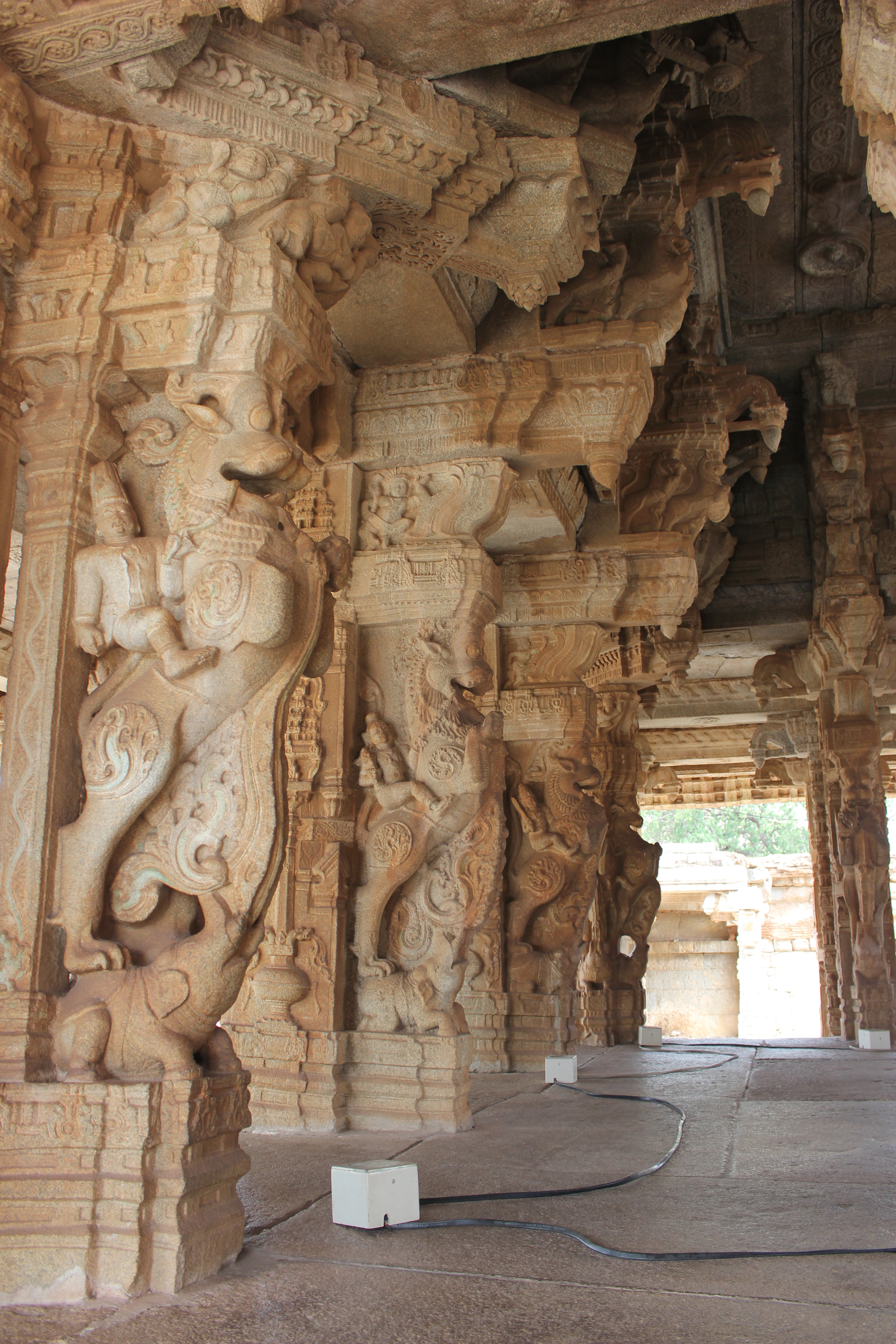 This photograph was taken by me at the Vitthala temple complex in Hampi, a UNESCO world heritage site in the Bellary district, Karnataka state, India. The Vitthala temple took about a hundred years to complete. Its construction was started during the rule of Vijayanagara King Deva Raya II (1426-1446 AD) and completed during the reign of King Achyuta Raya (1529-1542 AD)